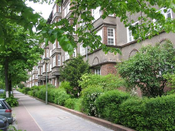 The "Schramblock" at the Berlin street "Hildegardstraße"